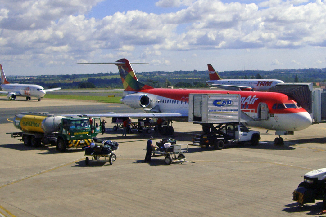 Brazilian OceanAir aircraft at Juscelino Kubitschek International Airport, Brasilia, D.F.